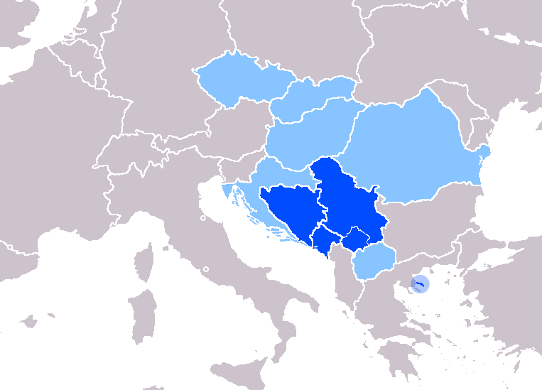 Official language in Serbia Bosnia and Herzegovina Kosovo Mount Athos Recognised minority language in Montenegro Croatia Hungary Romania Slovakia Czech Republic Macedonia .